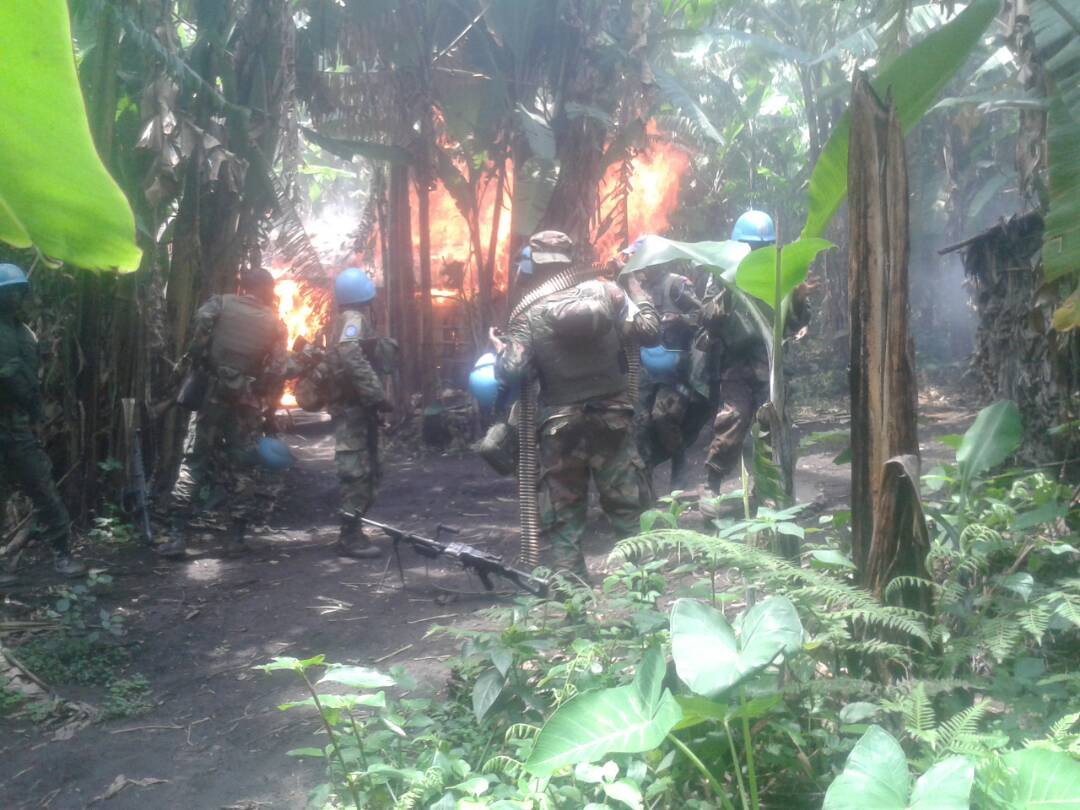 Rutshuru, North Kivu Province, DR Congo. MONUSCO Forces destroying a camp previously occupied by the Democratic Forces for the Liberation of Rwanda (FDLR) in Rutshuru territory. The operation intended to disrupt the armed group’s leadership and push them to cease their negative activities was conducted jointly by the Force Intervention Brigade (FIB), Special Forces and FARDC.Photo: MONUSCO/Force